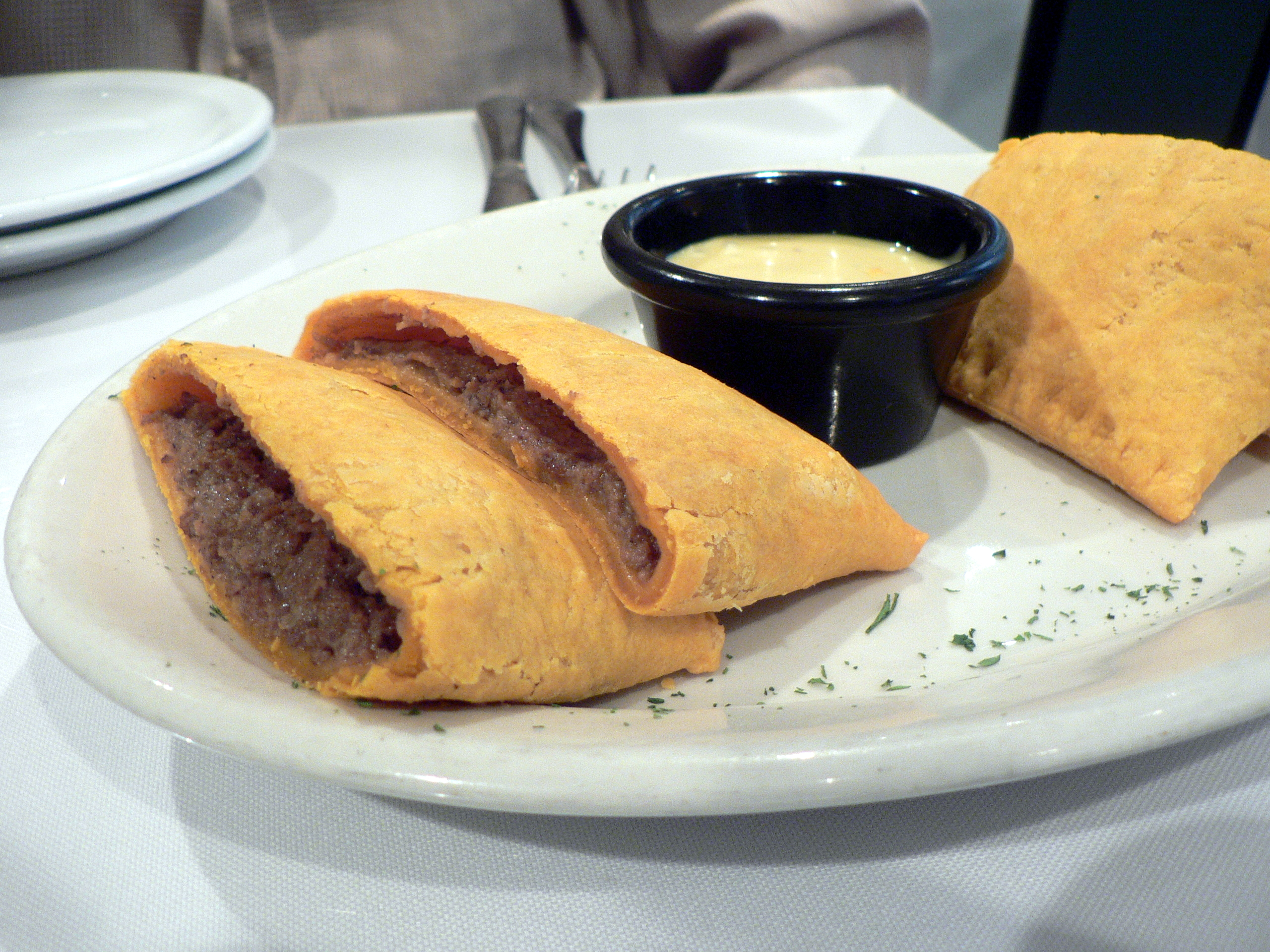 Jamaican beef patties